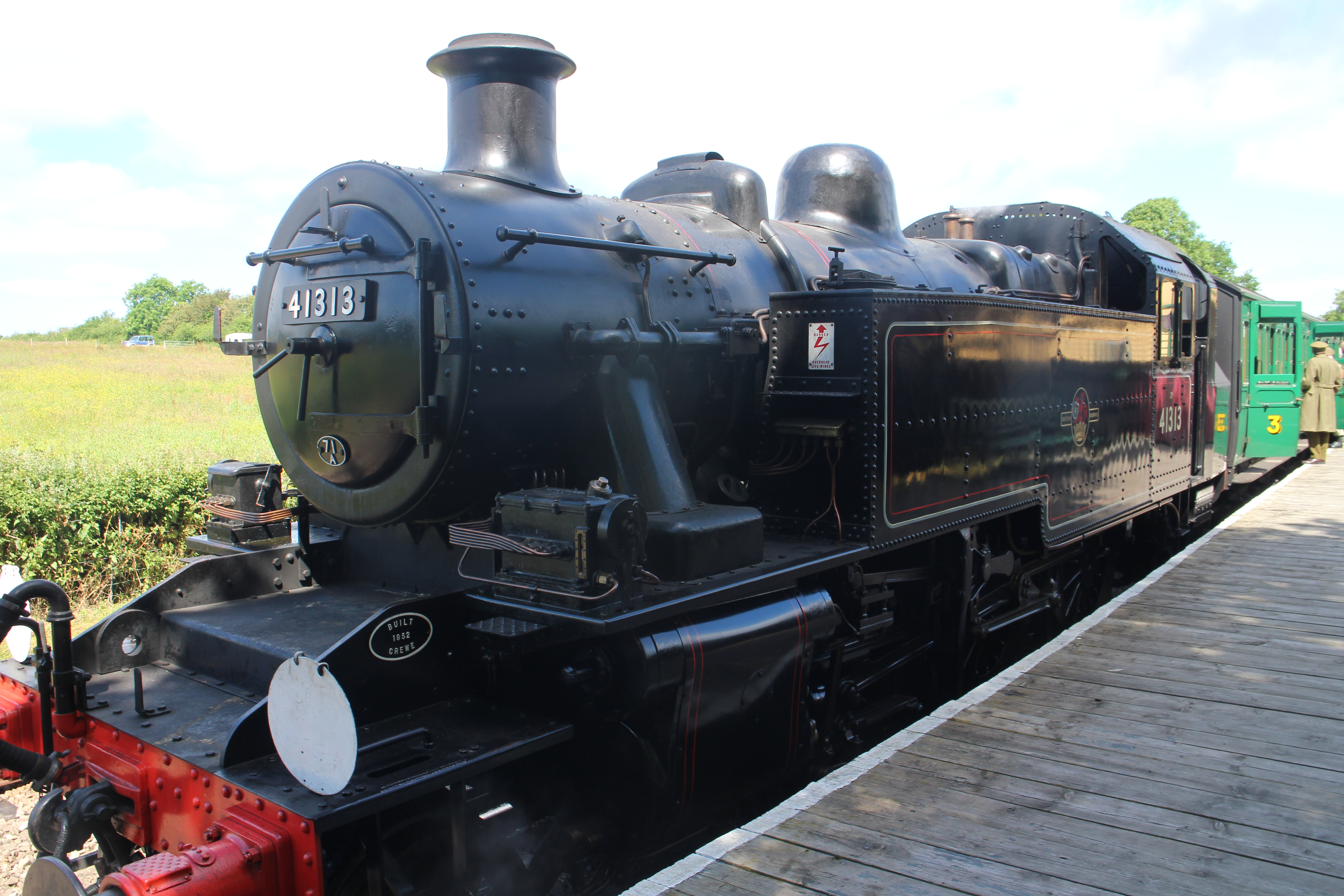 Trains on the Isle of Wight Steam Railway